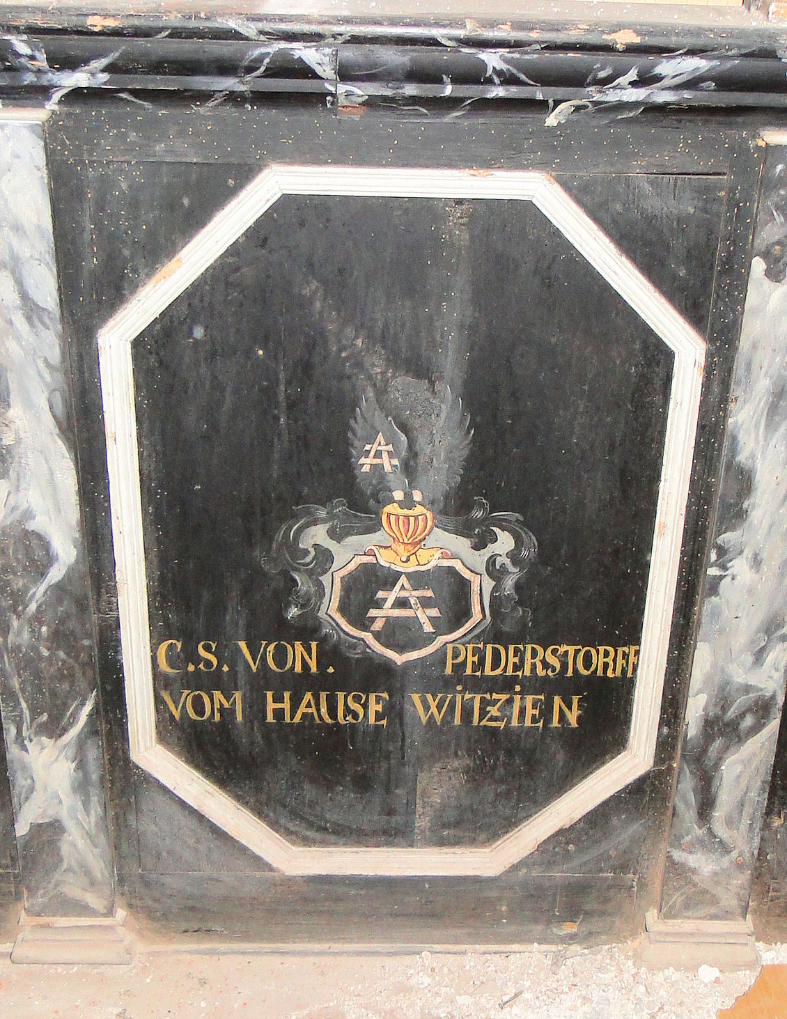 Interiors at nuns' matroneum at church in Monastery in Dobbertin, district Parchim, Mecklenburg-Vorpommern, Germany